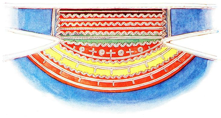 A male metal embroidered (goldwork) collar for the traditional Sami garment (costume) from Aasele, Västerbotten in Sweden. Search words: Saami, Samisk, Brodering, Tinnbroderi, Metall broderi, metal tread embroidery, Collars, sami silver, tenntråd, Barmklede, Bärmkläde, brystklede, Kolt, Kofte, Gakti, Samisk sølv, Sverige, Norway. Read more in Saamiblog